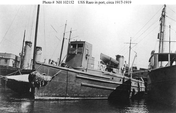 The United States Navy patrol vessel